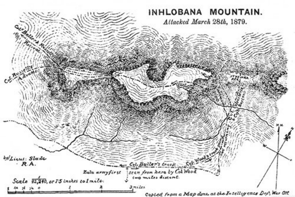 Map of Hlobane/Inhlobana - Battle of Hlobane